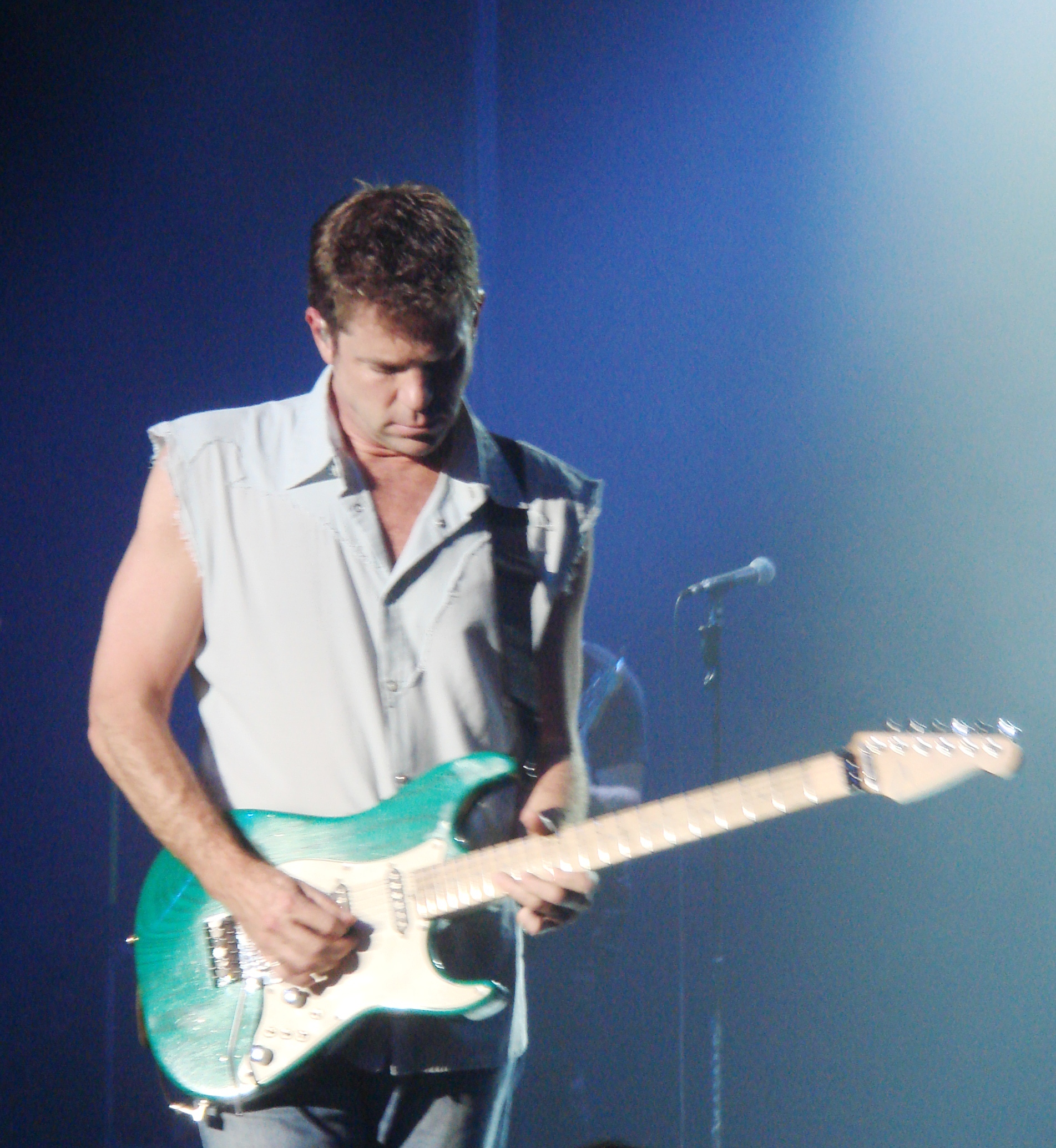 Keith Howland, American guitarist for the band Chicago, performing at the MGM Grand Las Vegas (Paradise, Nevada)